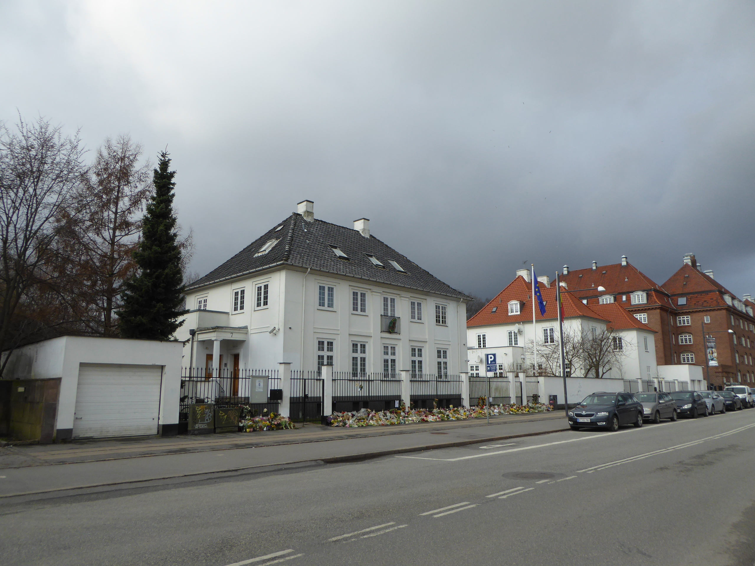 The embassy of Belgium at Øster Allé in Østerbro in Copenhagen, nine days after the terror attack in Bruxelles.